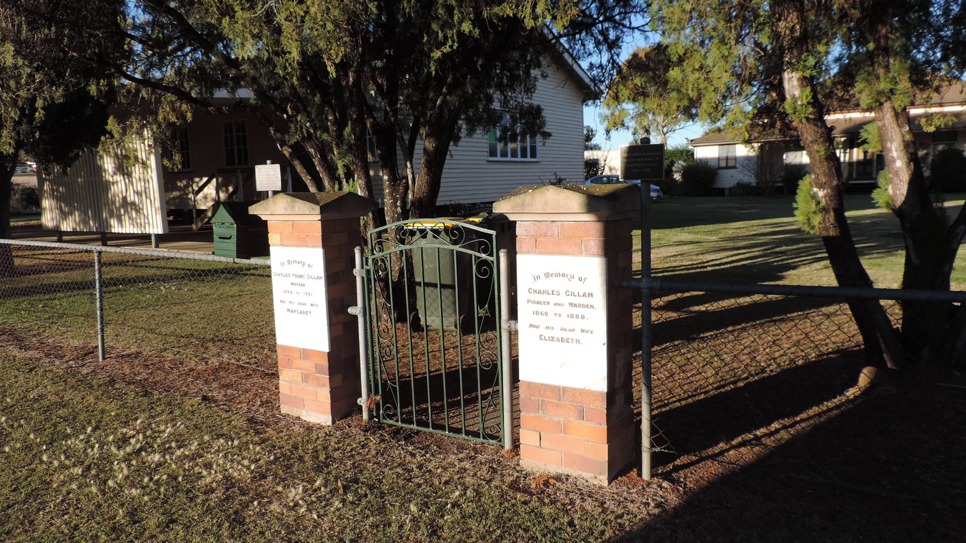 Memorial gates, St Davids Anglican Church, Allora, 2015